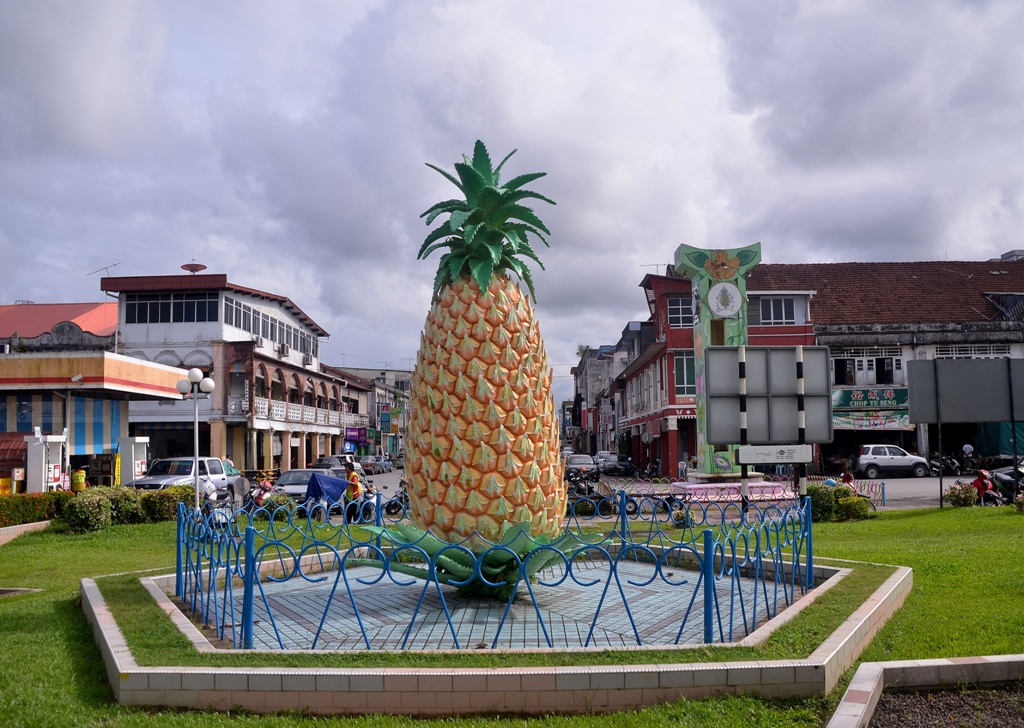 This pineapple will start my candid and street photography of Sarikei.